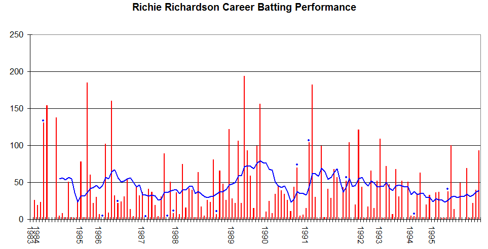 This graph details the Test Match performance of Richie Richardson. It was created by Raven4x4x. The red bars indicate the player's test match innings, while the blue line shows the average of the ten most recent innings at that point. Note that this average cannot be calculated for the first nine innings. The blue dots indicate innings in which Richardson finished not-out. This graph was generated with Microsoft Excel 2002, using data from Cricinfo and .au.